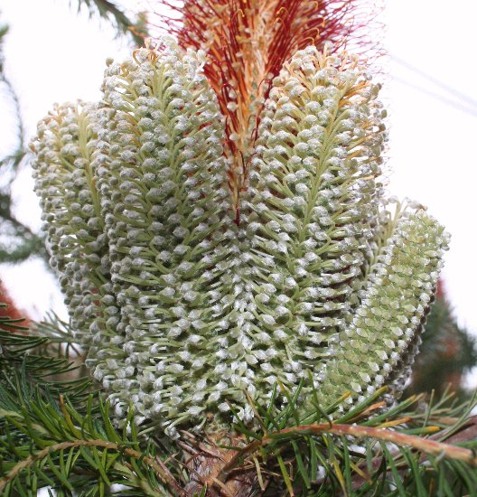 Banksia ericifolia 'White Candles' showing multiple white juvenile spikes cult. Sydney Photo: Cas Liber